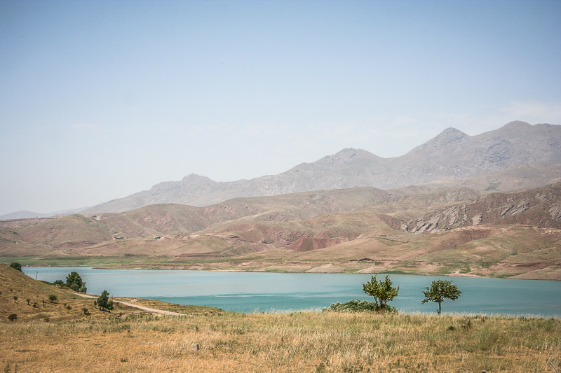 نمایی از دریاچه طالقان عکس: امیررضا توسلی